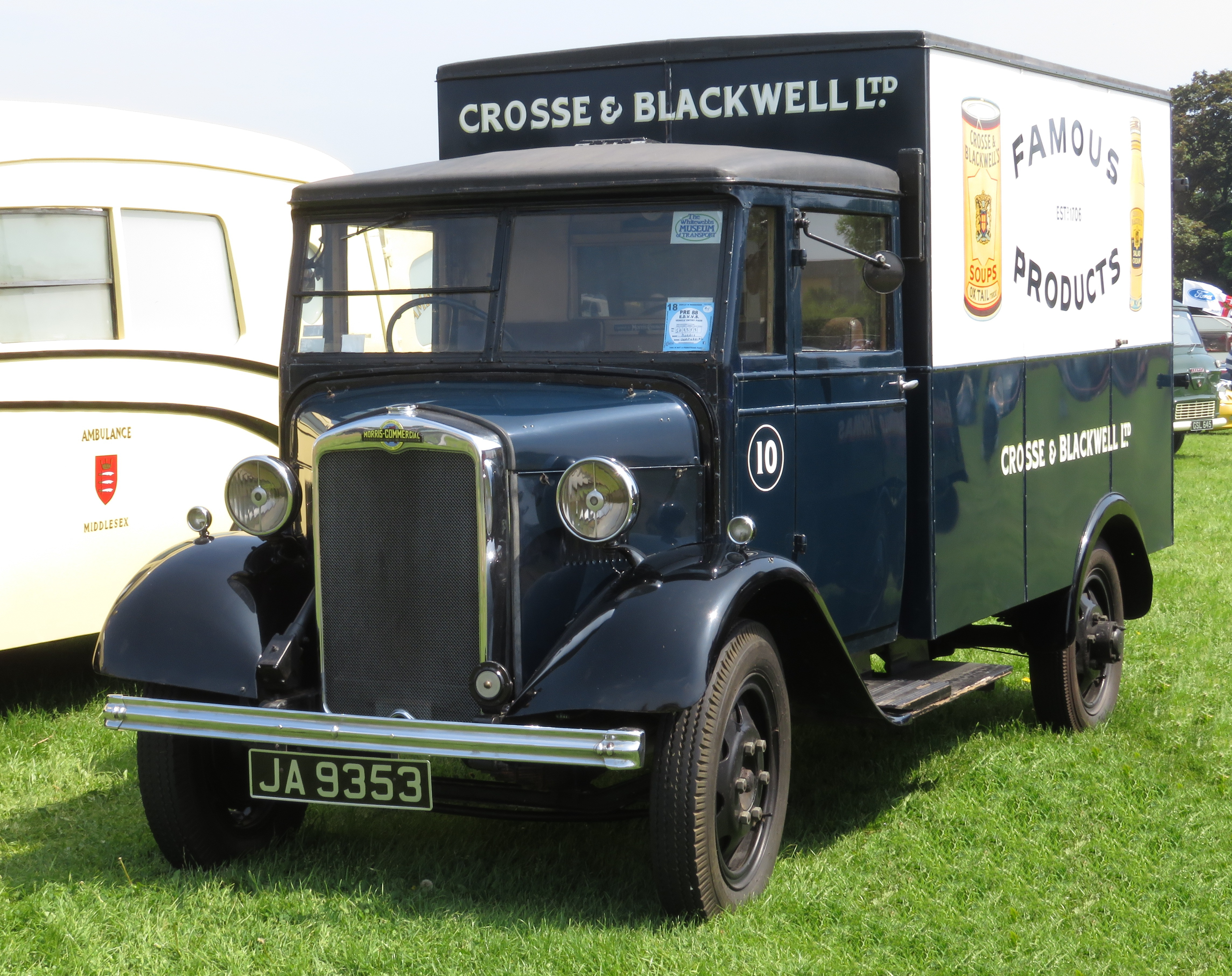 Morris Commercial preserved food delivery van (1937)